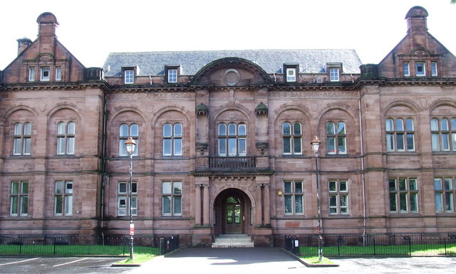 Paisley Grammar School The central, older part of the building which has been extended on both sides in more recent times. The original building was designed by local architect T.G. Abercrombie The inscription across the front of the building reads "Paisley Grammar School & Wm B Barbour Academy".